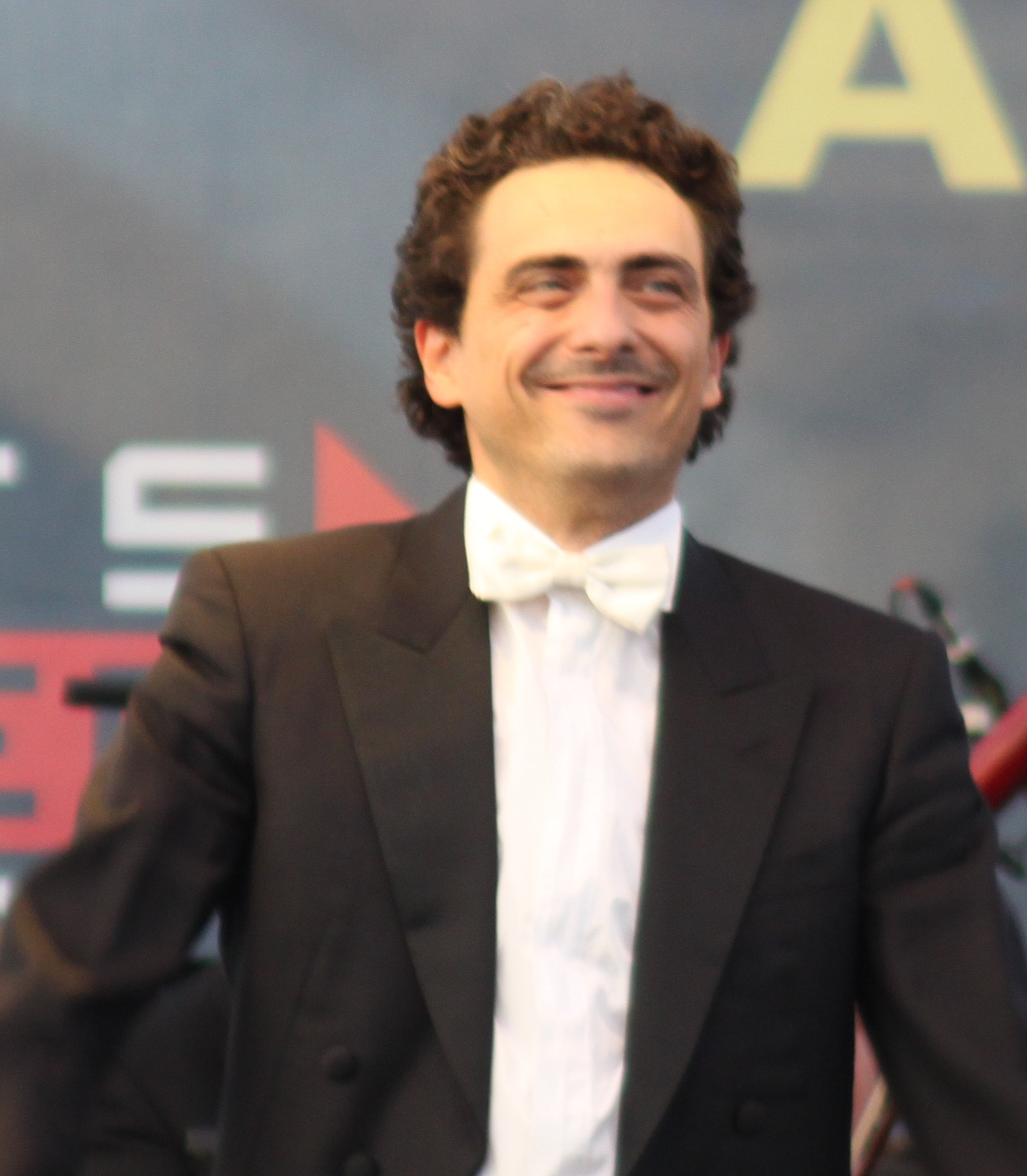 Francesco Angelico (2019)